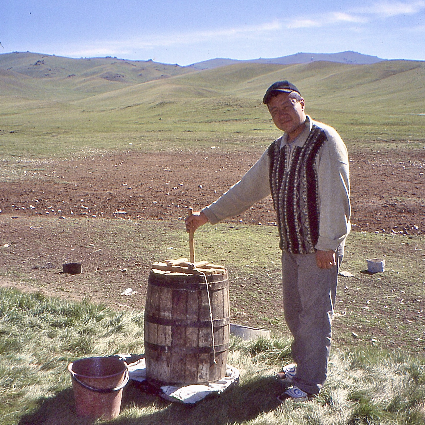 A semi nomadic cattle raiser preparing mare kumis (qymiz, kımız) in the Song Kol area, Kyrgizstan, July 2004